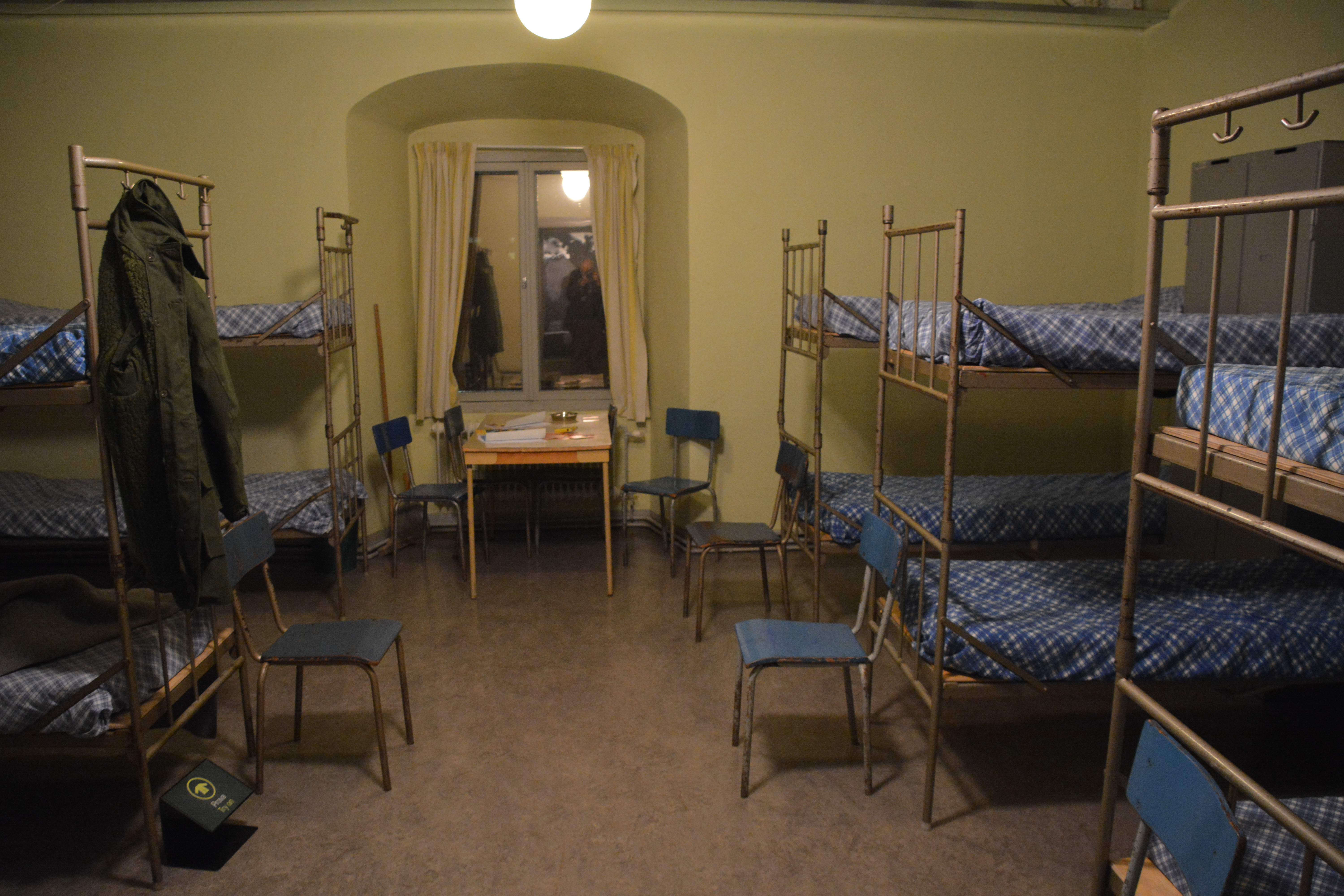 Interior from Swedish barracks, Swedish Army Museum in Stockholm